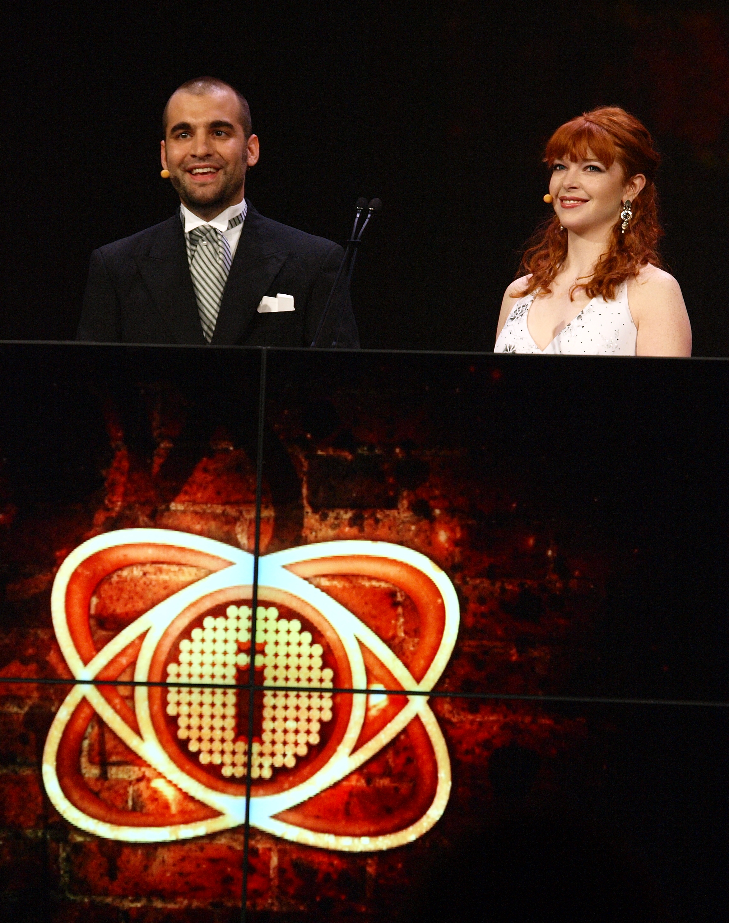 Kyle Gabler and Erin Robinson during the Independent Games Festival Awards as part of the Game Developers Conference 2010.